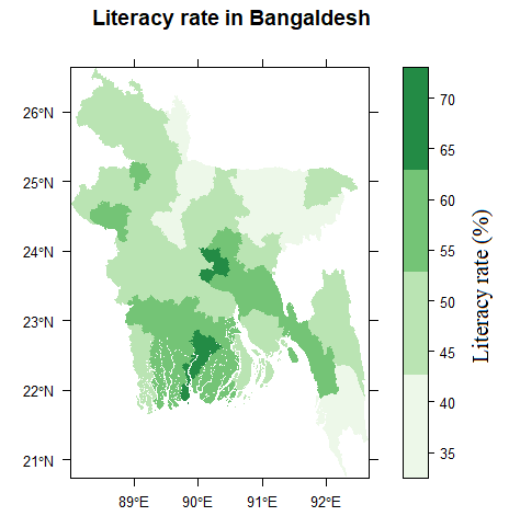 Map showing literacy pattern in Bangladesh districts. Made using data from Statistical Year Book, Bangladesh (2016)